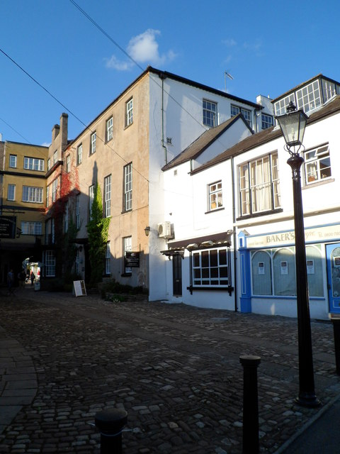 Beaufort Arms Court, Monmouth